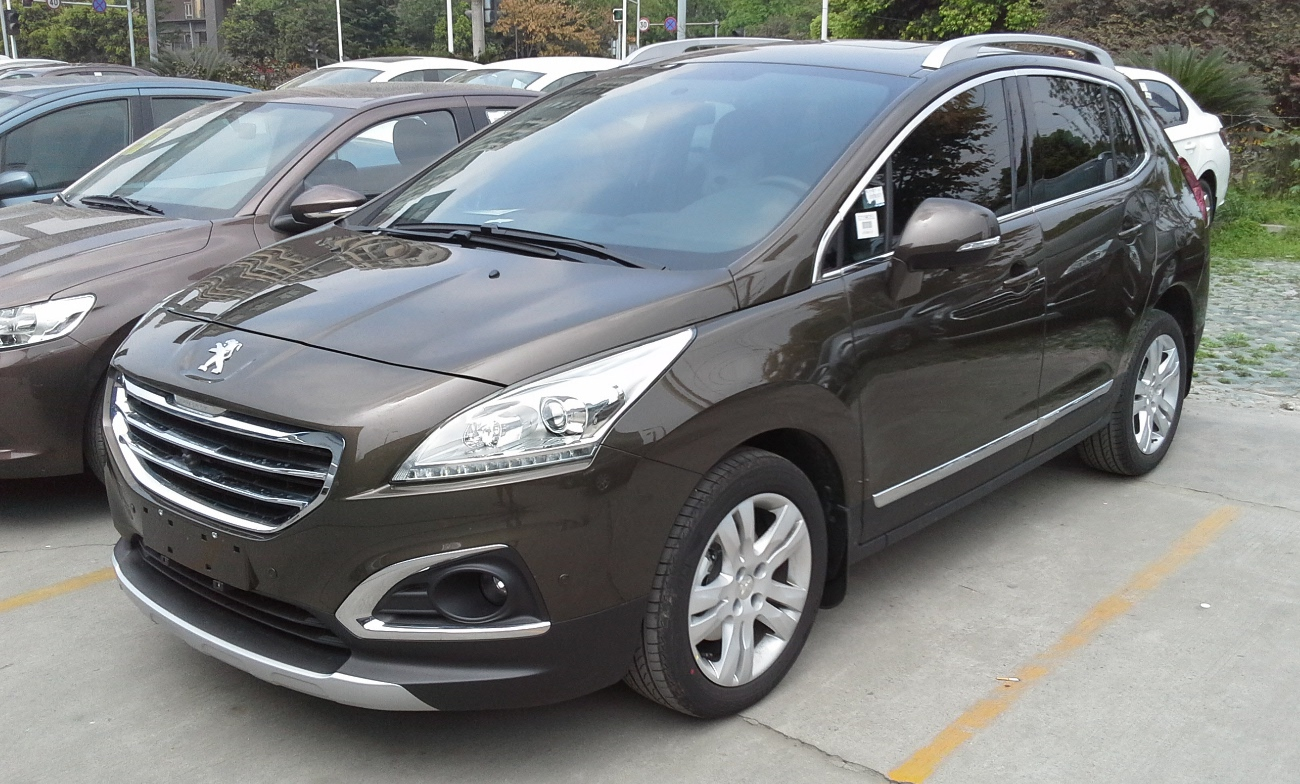 Peugeot 3008 CN photographed in Chengdu, Sichuan province, China.